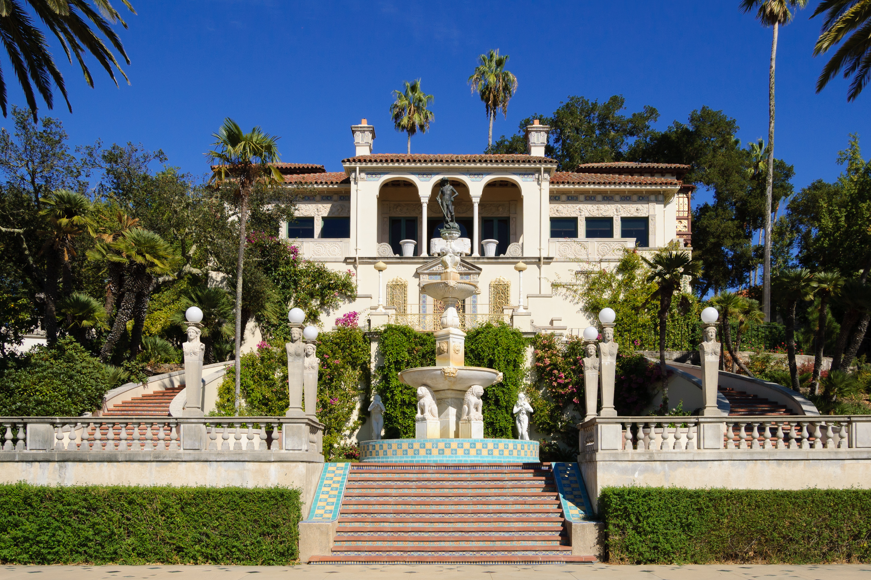 Casa del Sol in Hearst Castle.